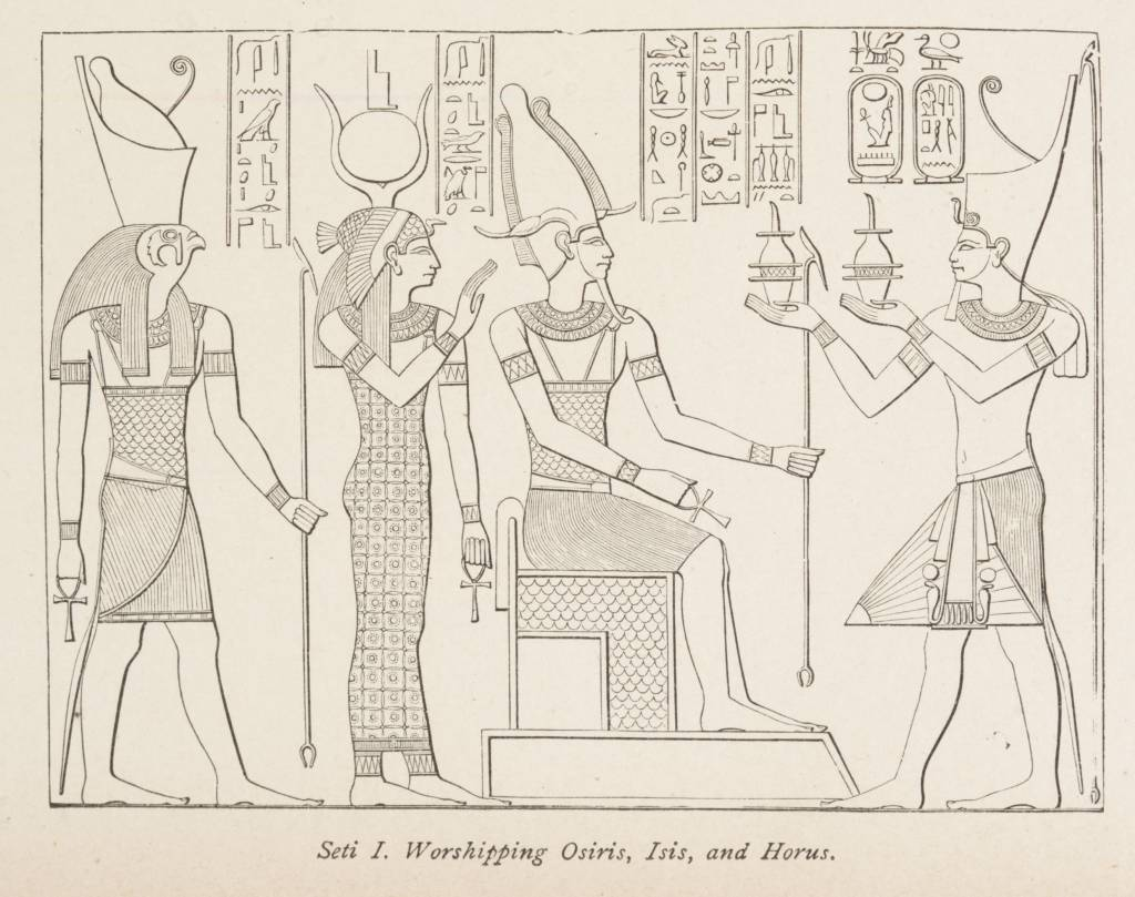 A pharaoh worshipping three Egyptian gods and offering them urns. There are also hieroglyphs in the background.